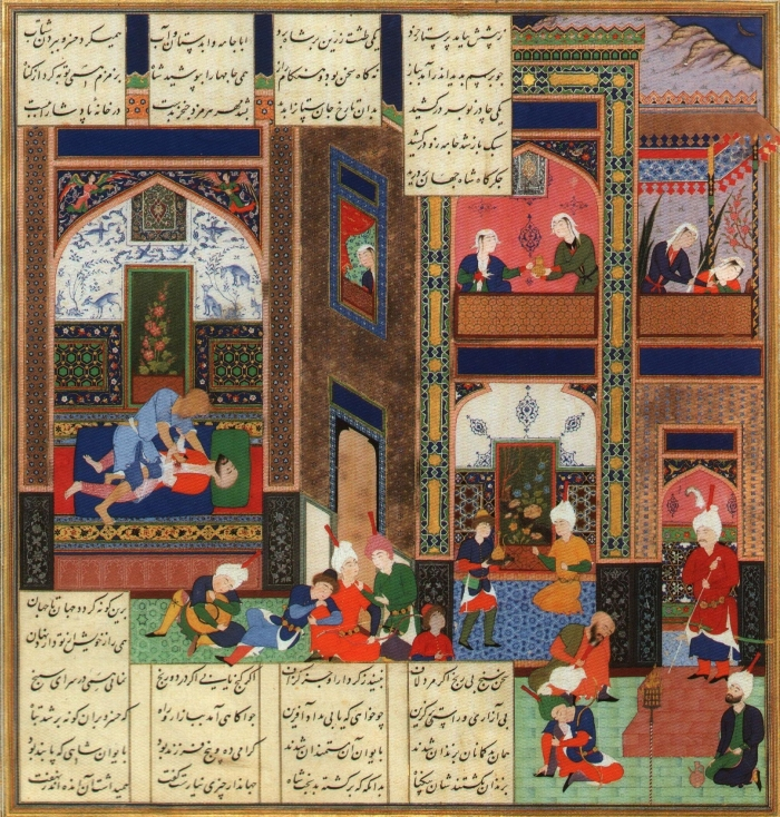 Sassanian king Chosroes Parvez has been deposed and placed in house arrest. Mihr-Hurmuzd has been sent to assassinate him. To save time, Chosroes asks his page to bring him prayer items. The naive youth does exactly as he is told, without fetching guards to save his master. Mihr-Hurmuzd waits until the king is done praying and leaps on him, planting a knife in his stomach. The face of the assassin has been left unfinished.